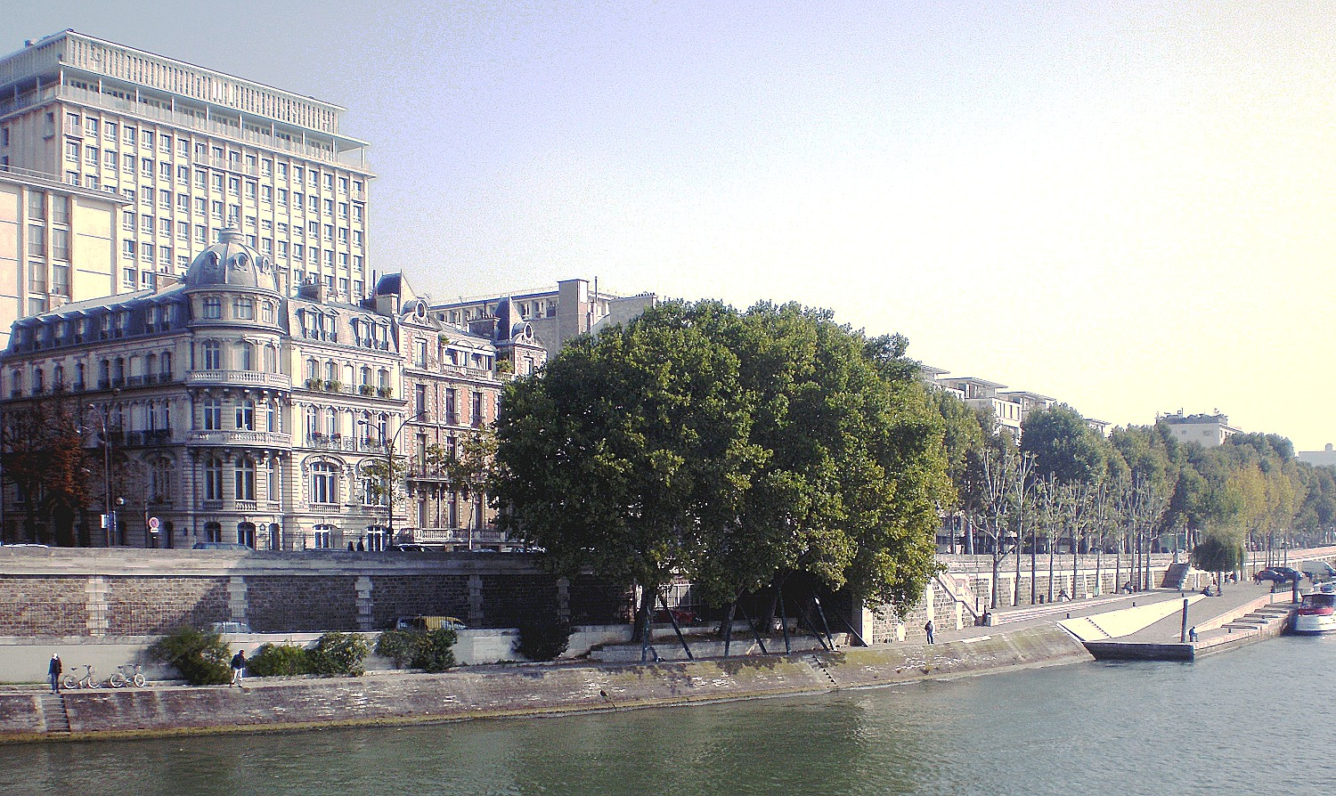 quai Henri IV - Paris